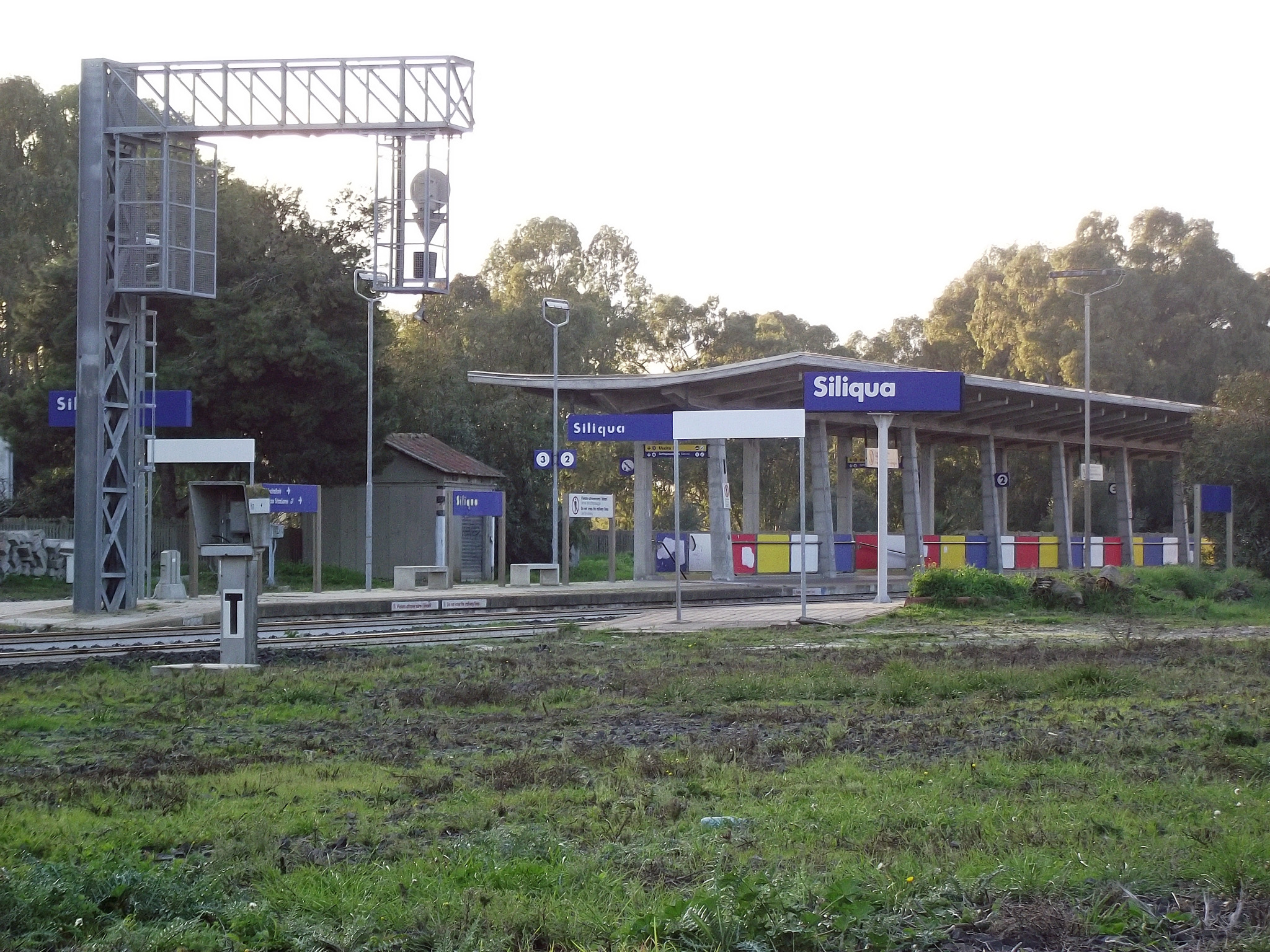 View of the Siliqua train station of RFI, in Sardinia, Italy